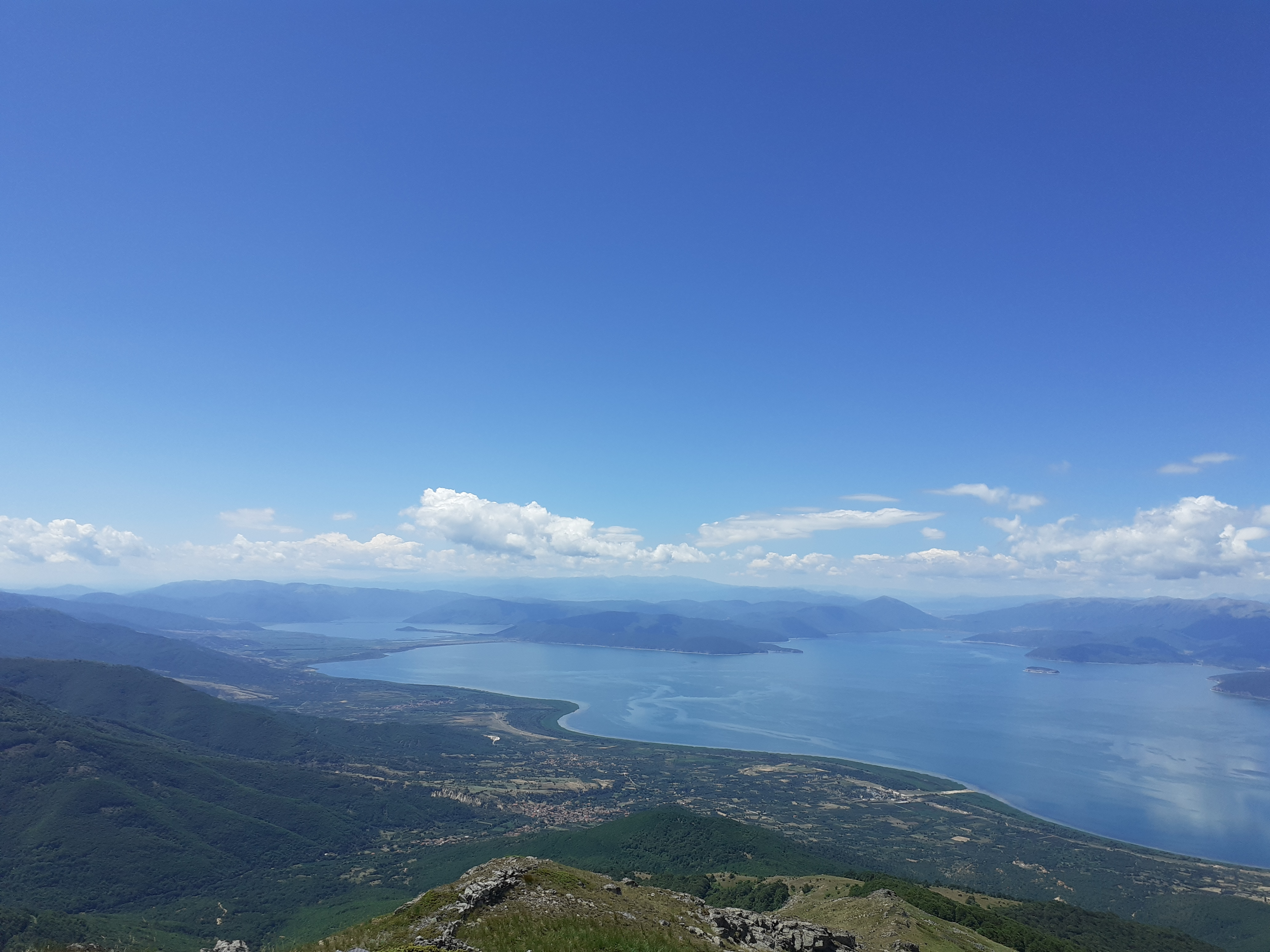 The ihtmys between Prespa lakes, Macedonia